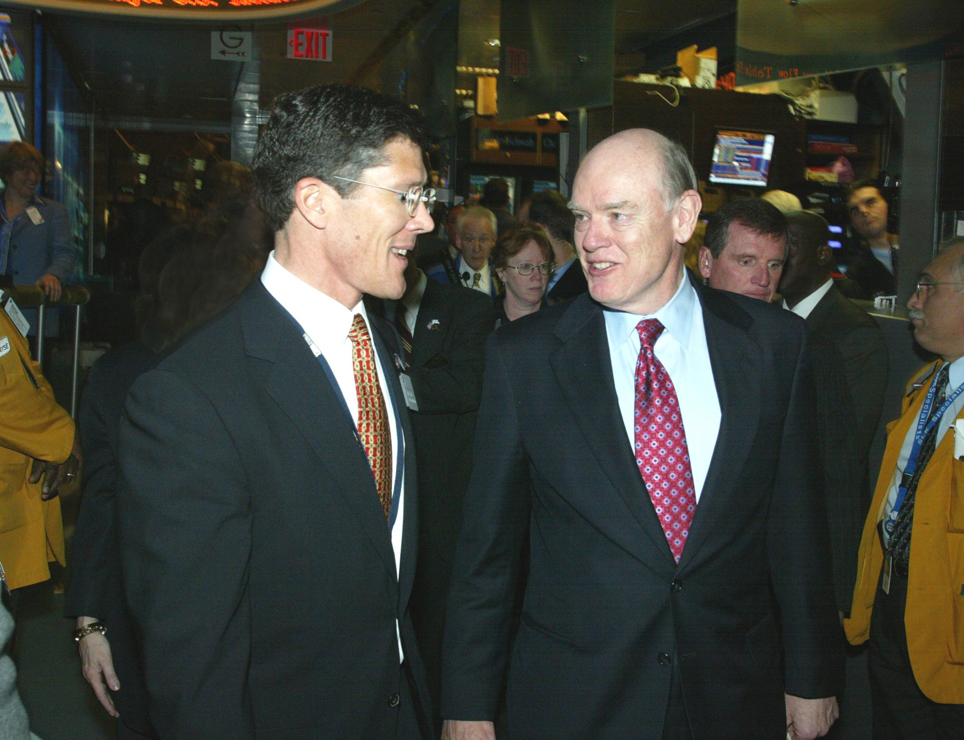 Secretary John Snow on Friday toured the trading floor of the New York Stock Exchange with NYSE CEO John Thain. (NYSE photo)